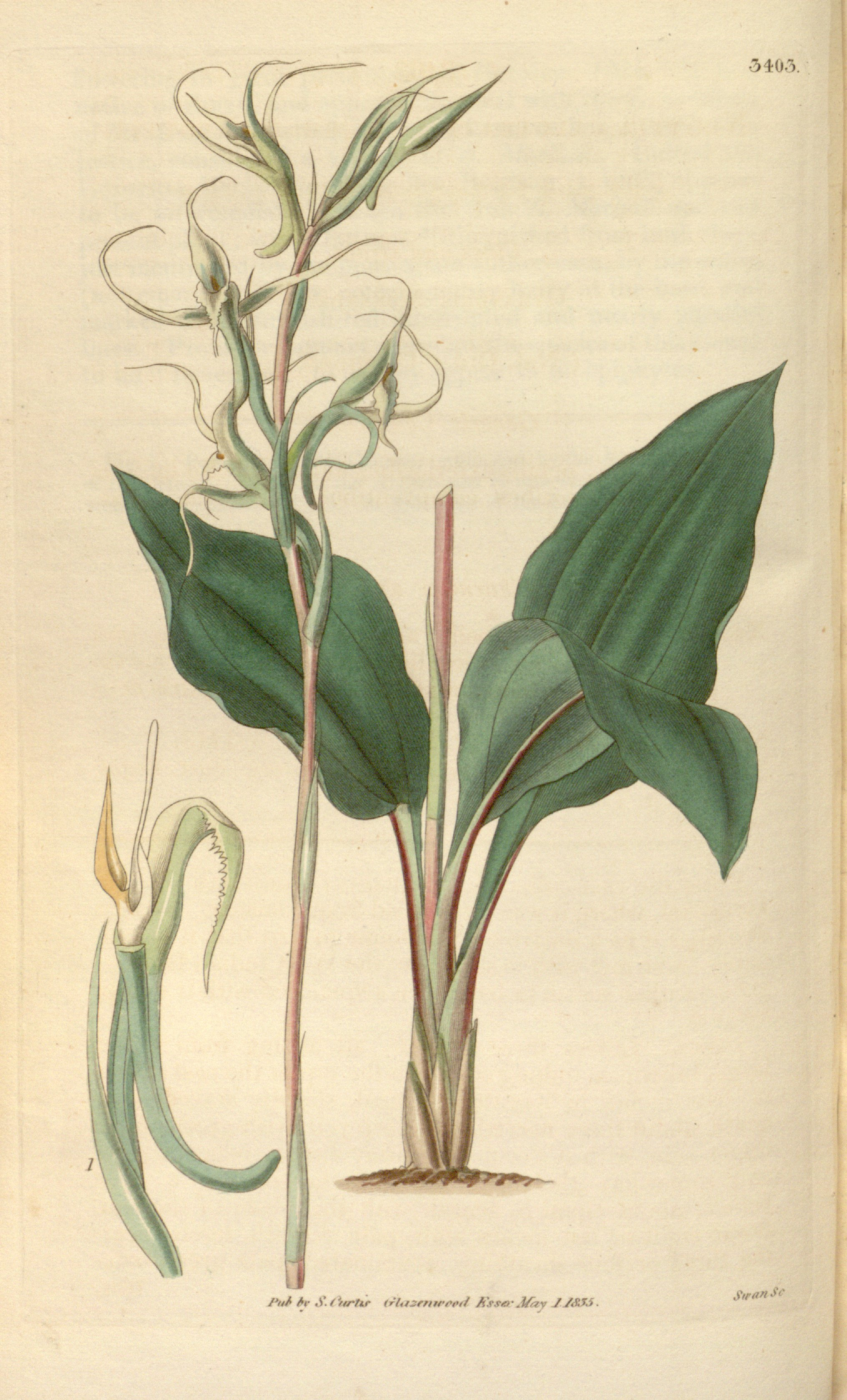 Illustration of Eltroplectris calcarata (as syn. Neottia calcarata)